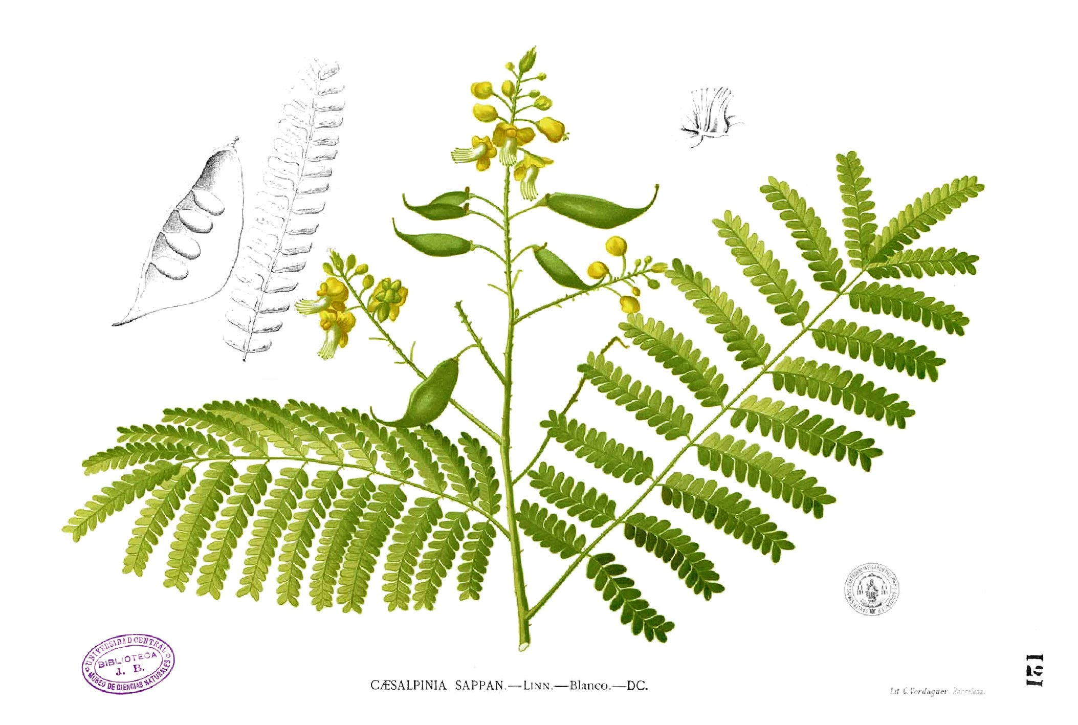 Plate from book